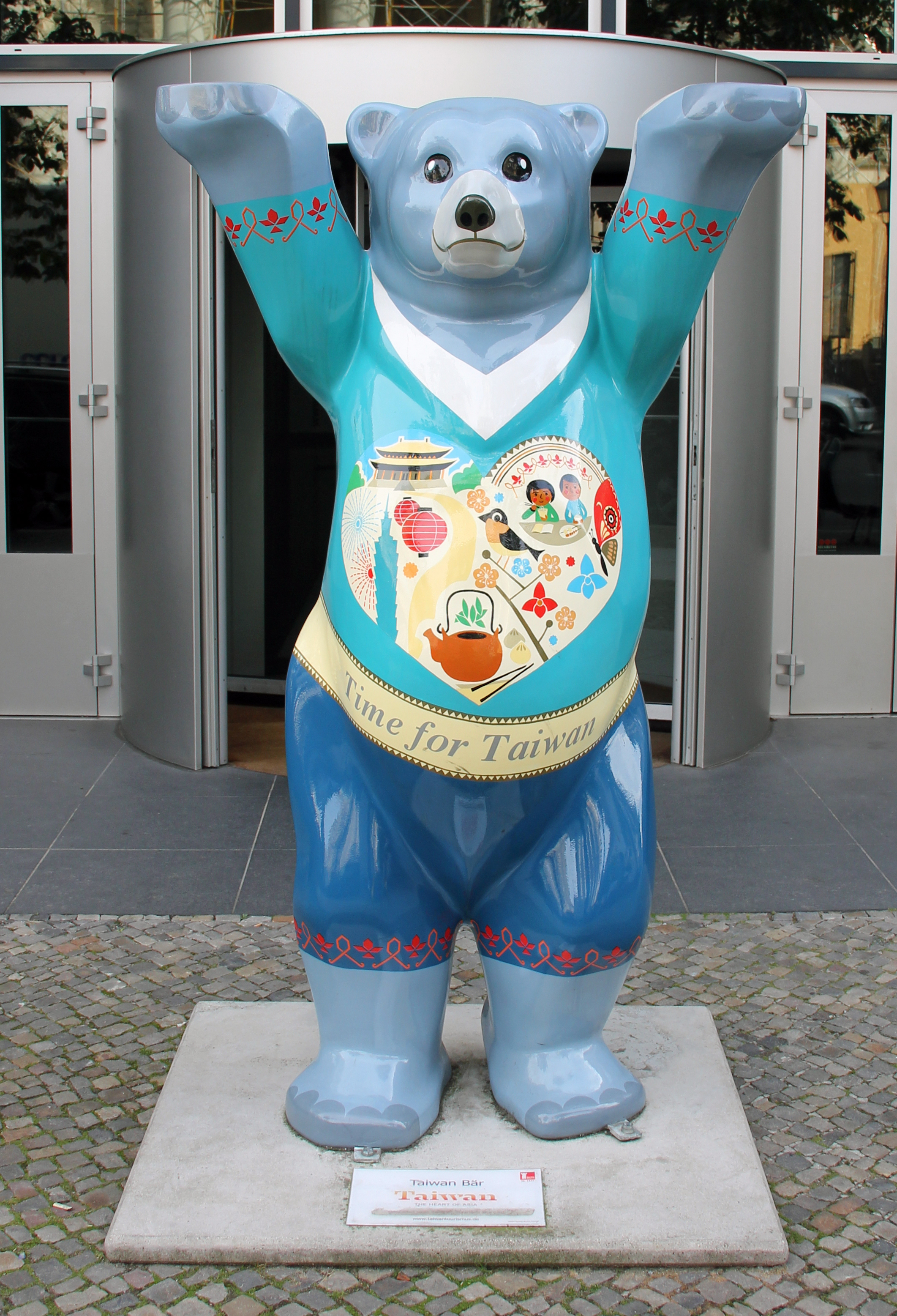 Sculpture, Taiwan Bär, Markgrafenstraße 35, Berlin-Mitte, Germany